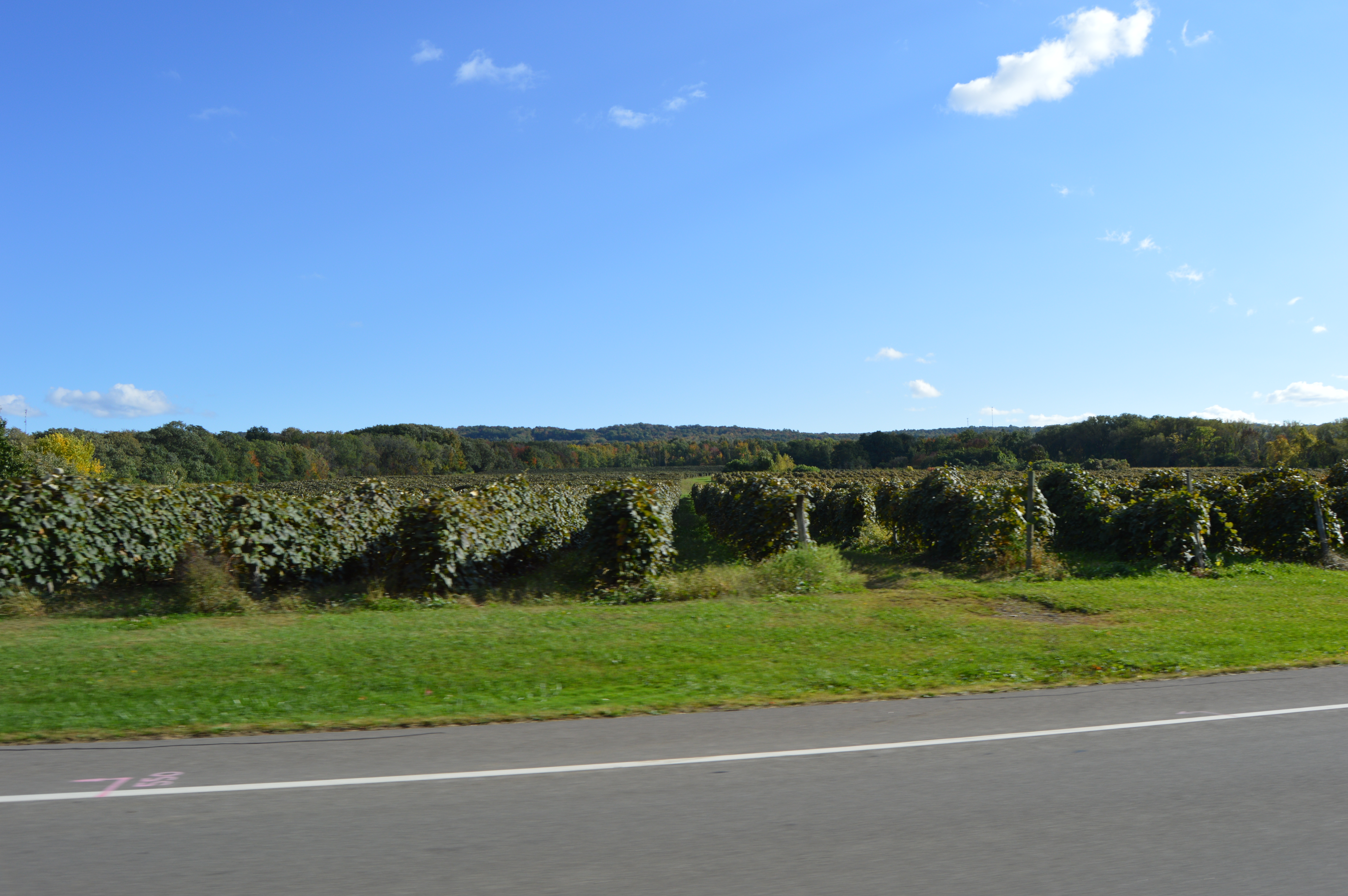 Vineyards in the town of Westfield, New York, United States; photo looks south from U.S. Route 20 west of the village of Westfield.